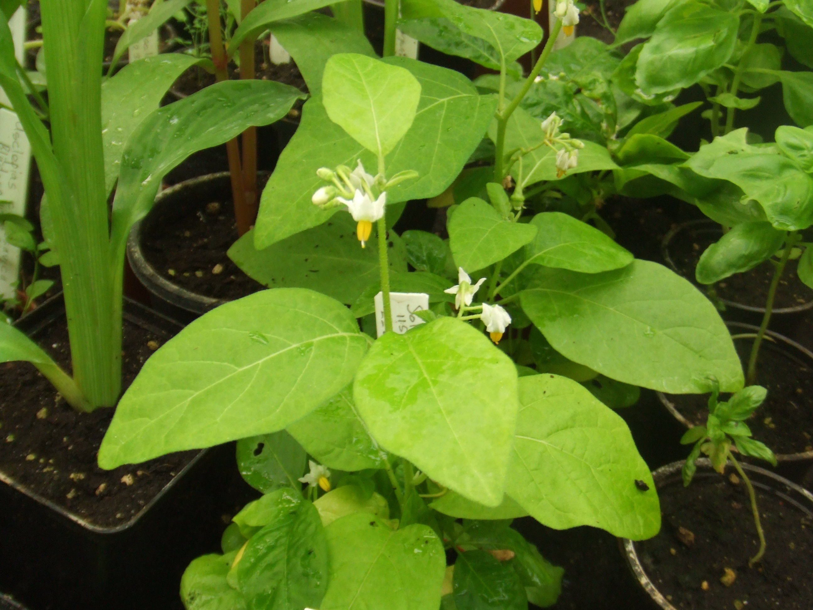 Solanum aethiopicum, picture taken at the Botanische tuin TU Delft in Delft, The Netherlands